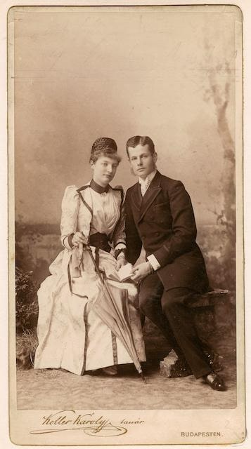 Albert, 8th Prince of Thurn and Taxis and his wife Archduchess Margarethe Klementine of Austria